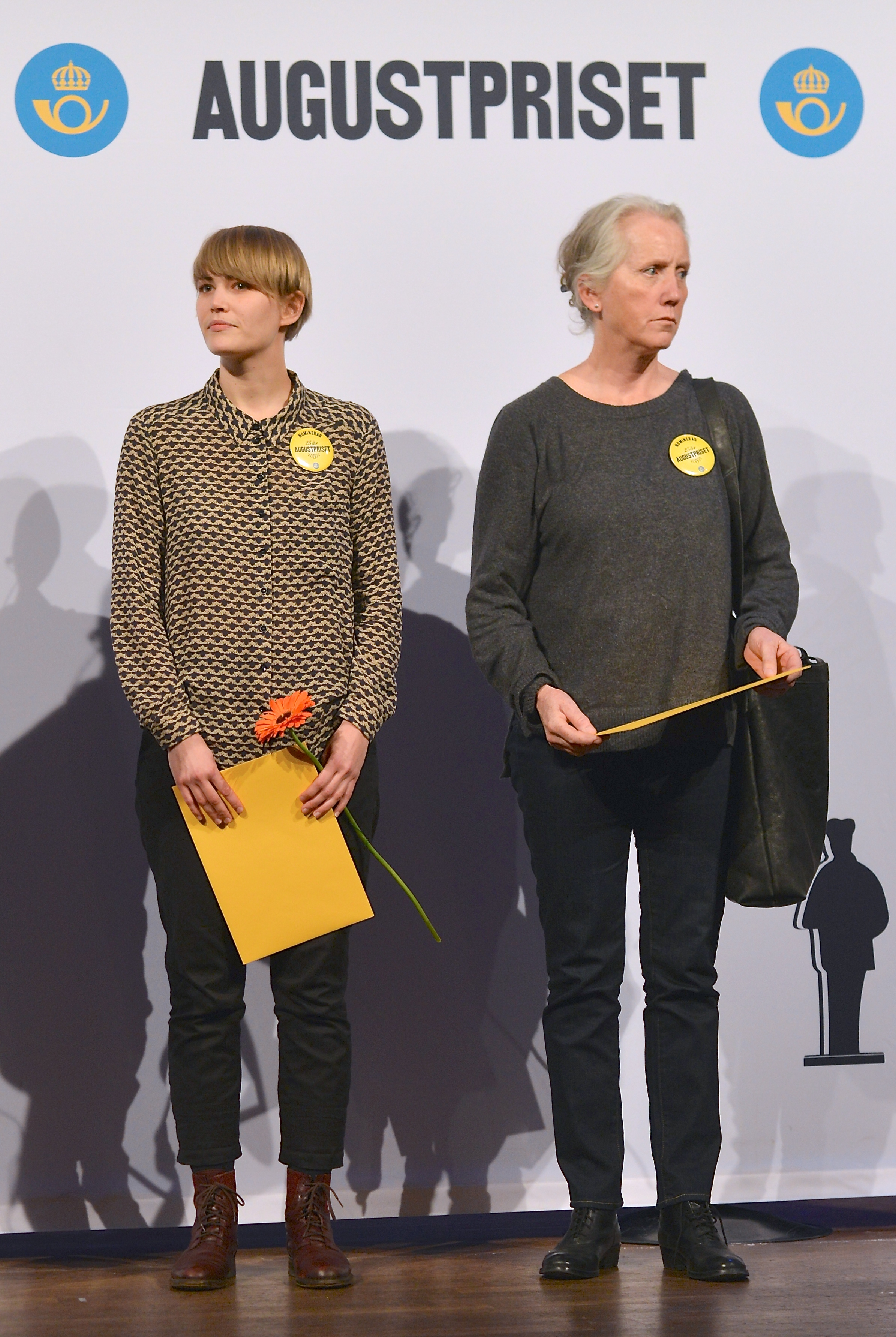 Ellen Karlsson and Eva Lindström, the nominees and later the winners for the August Prize 2013 in the category of children and youth. Stockholm, 21 October 2013.